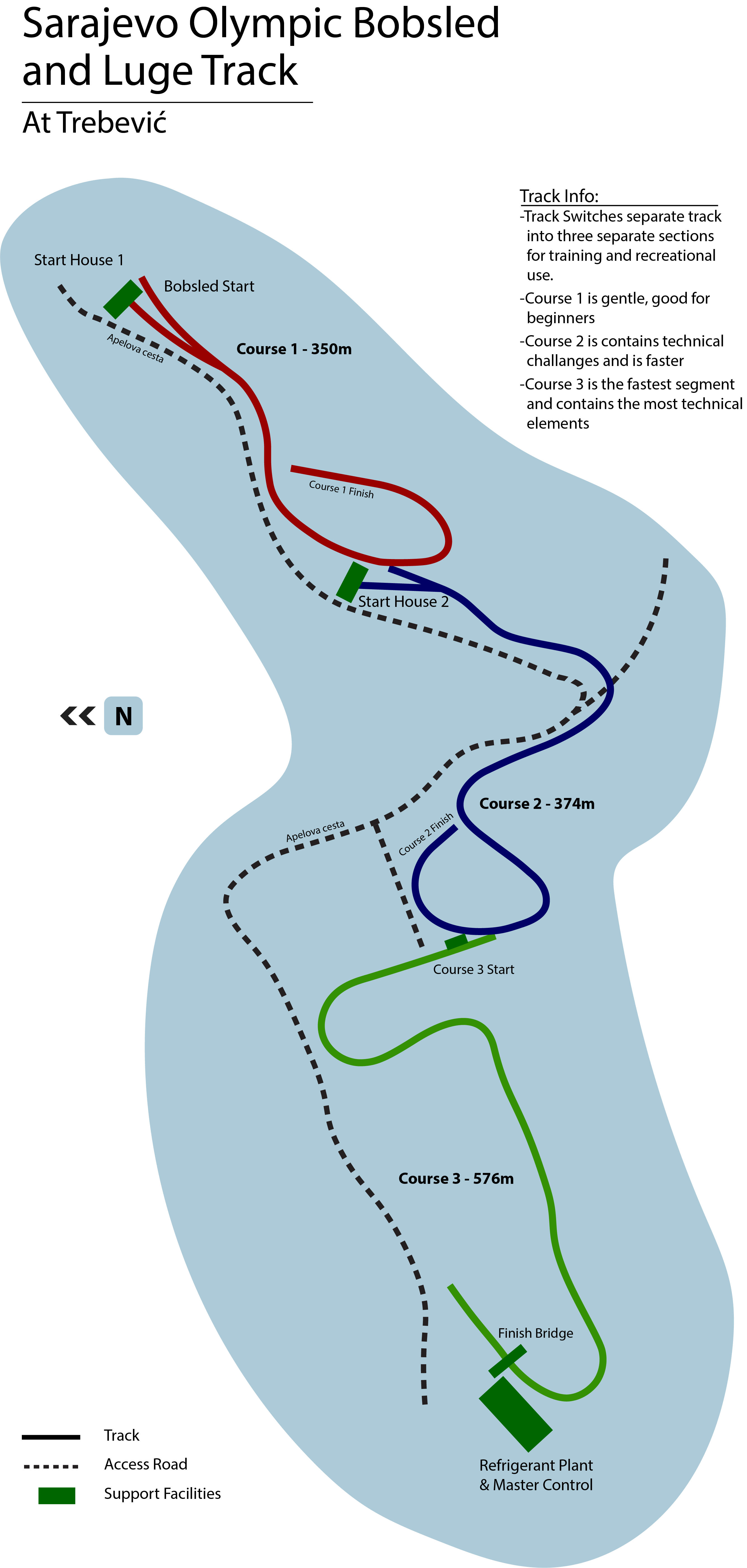 This diagram shows the Sarajevo Olympic Bobsled and Luge Track separated into its training and recreation sections.